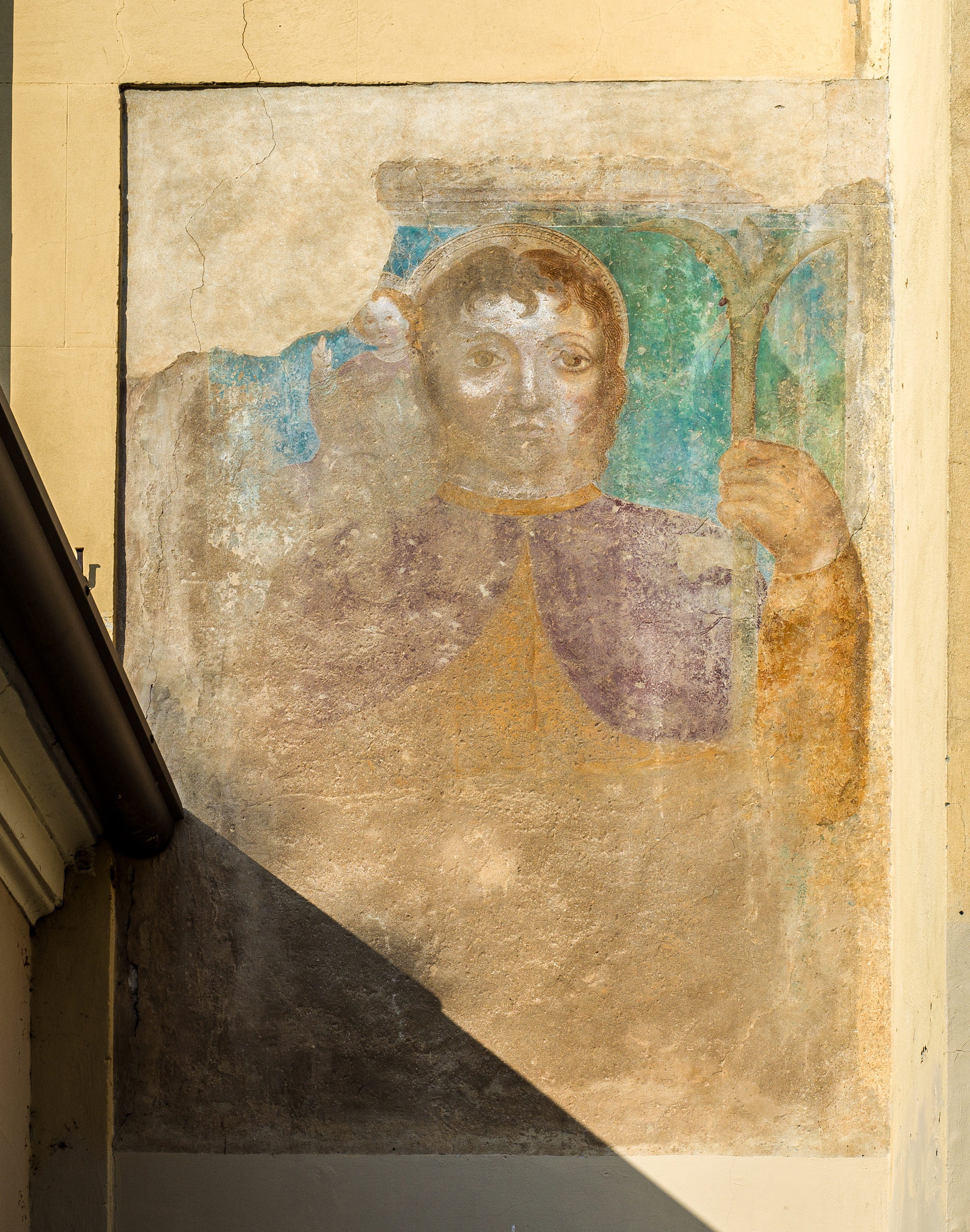 Fresco of Saint Christopher on the Sant'Eufemia della Fonte church in Sant'Eufemia, Brescia.